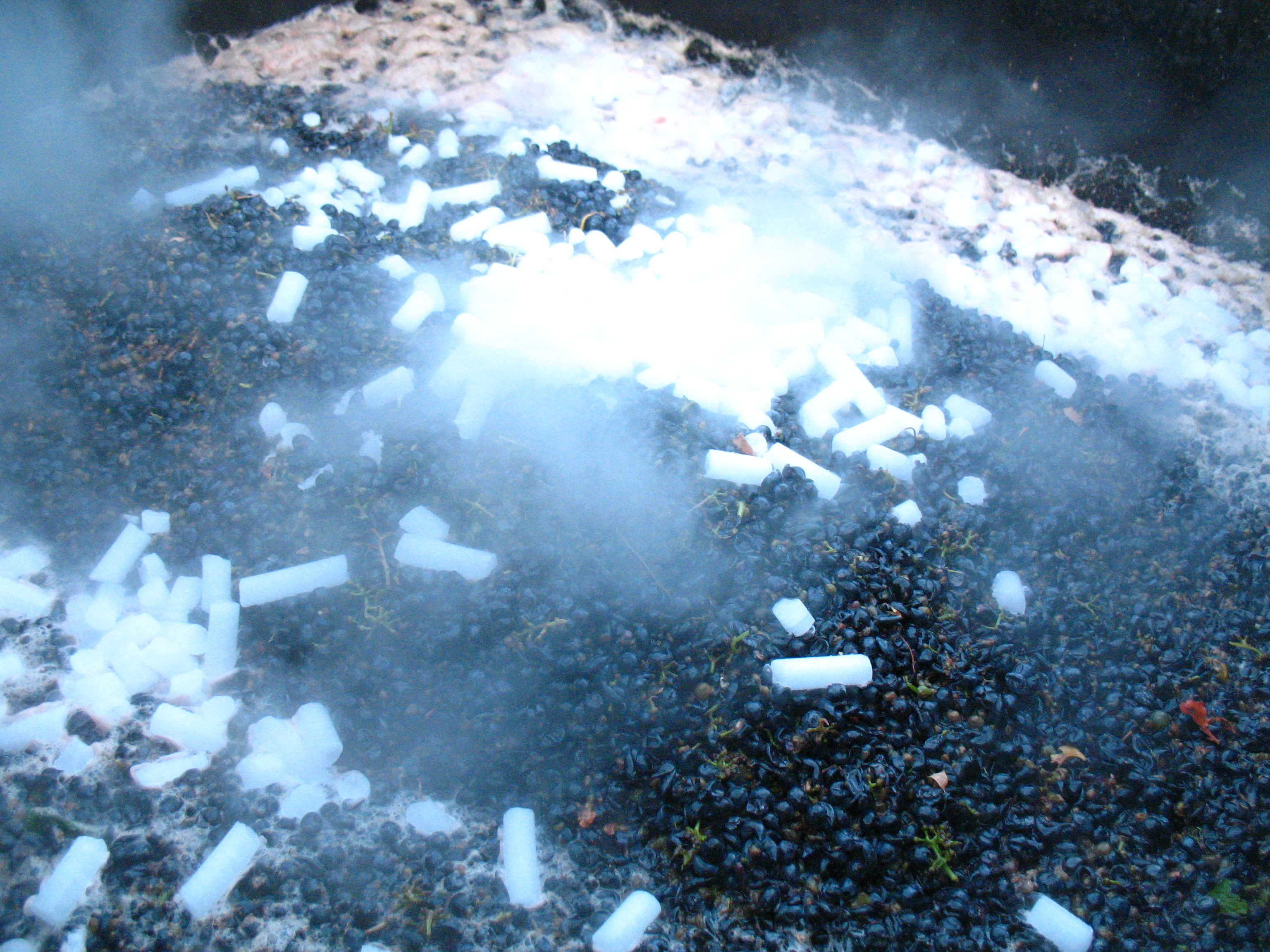 Dry ice being used to preserve grapes and keep them cool after harvest. The dry ice keeps the grapes cold, holding off the start of fermentation and does not dilute the flavors like regular ice would.